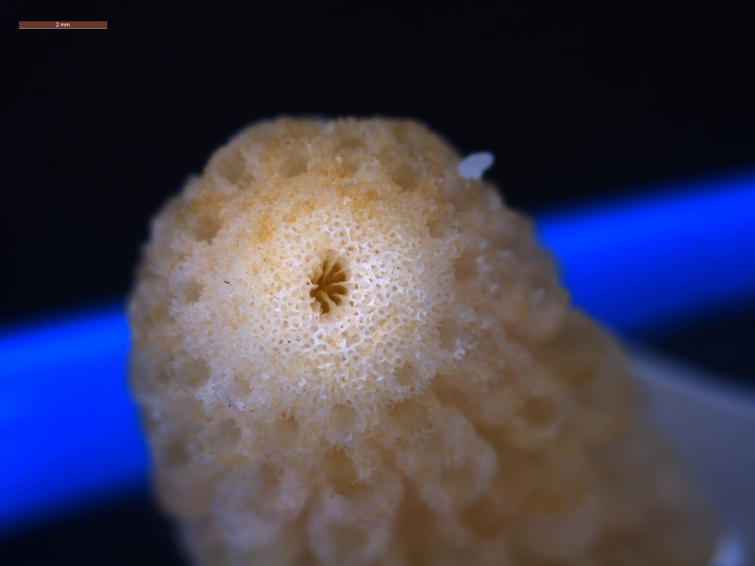 GCMP_sample_photo_749